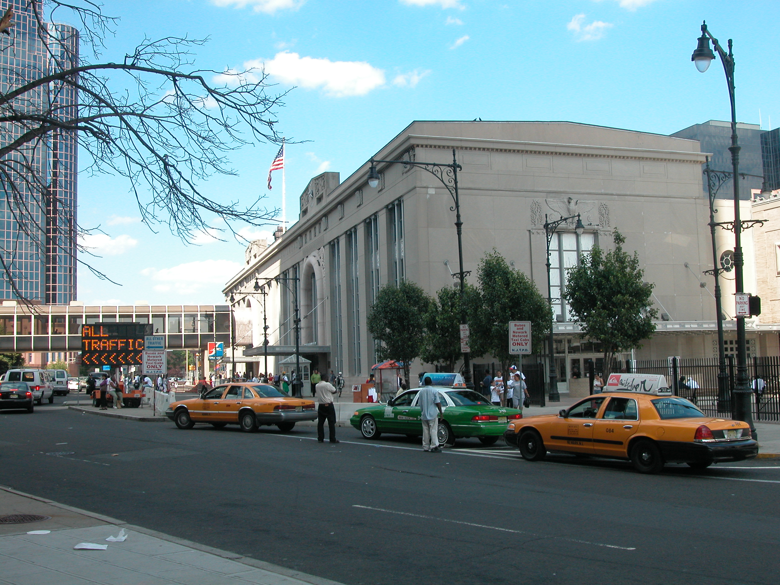 20030701 73 Penn Station Newark, NJ